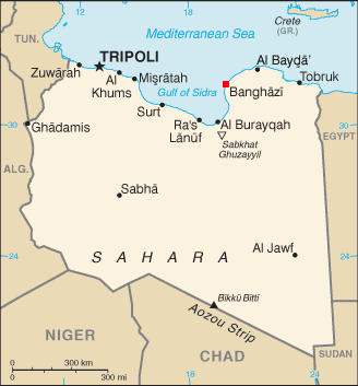 Location of Benghazi within Libya.